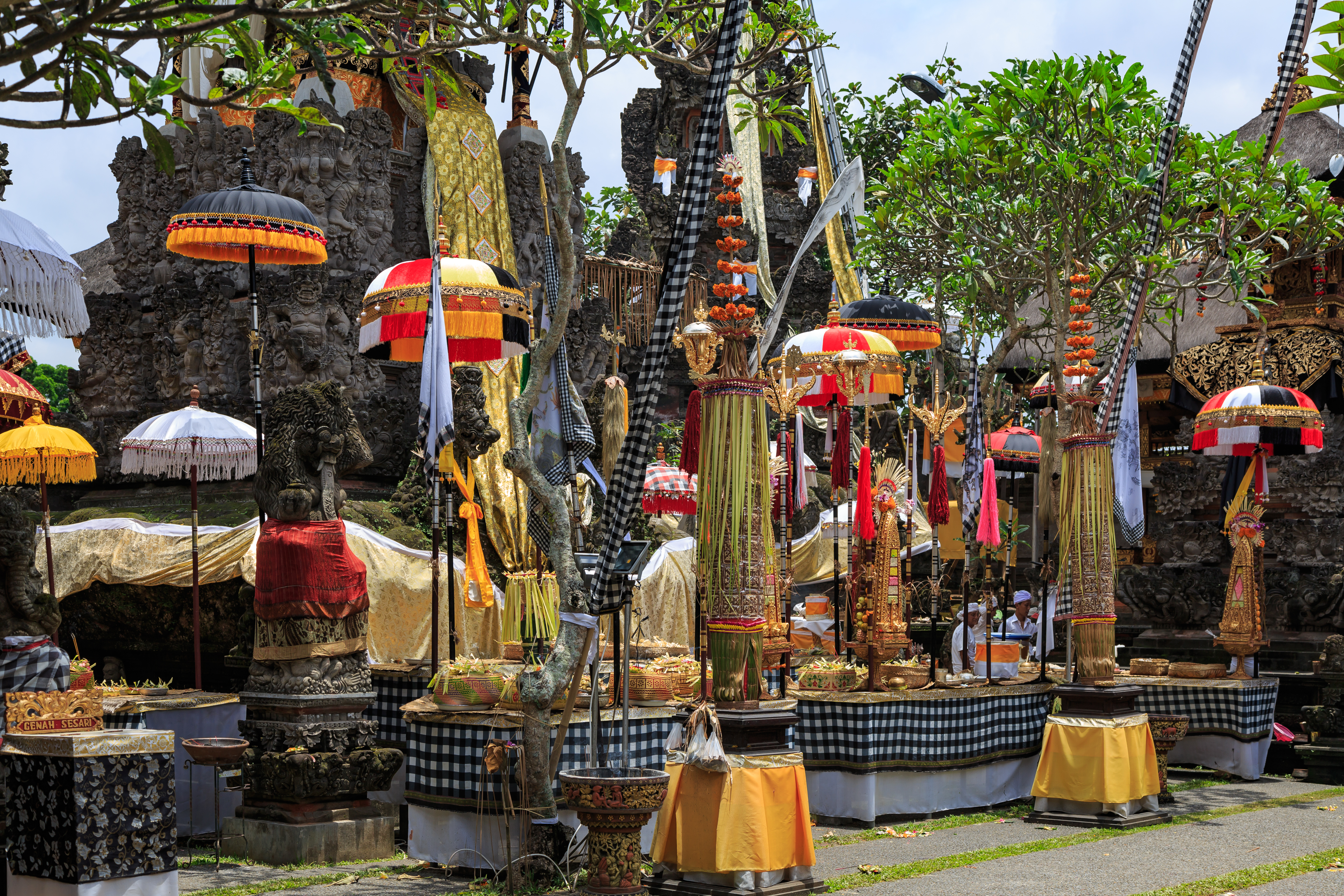 Ubud, Bali, Indonesia: Offerings in Pura Dalem Puri.